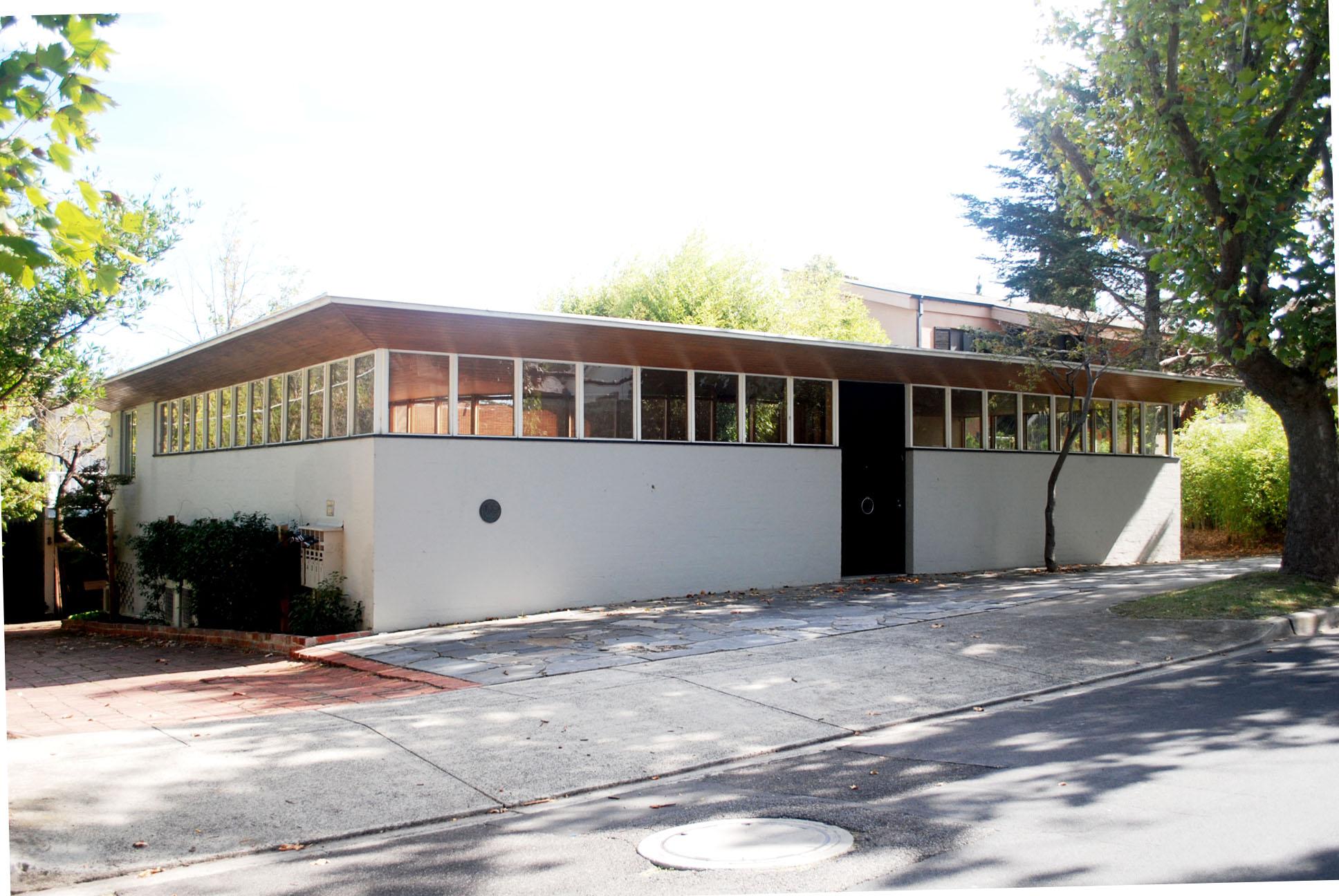 Established: 1950's Location: 24 Hill Street, Toorak, Melbourne, Australia Type: House Architect: Sir Roy Grounds